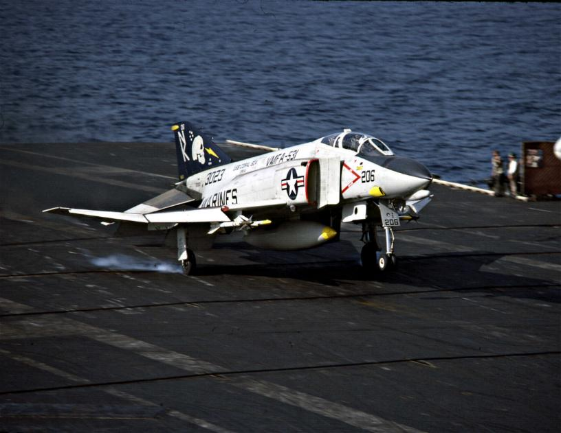 A McDonnell Douglas F-4N Phantom II fighter (BuNo 153023) of U.S. Marine Corps fighter-bomber squadron VMFA-531 Grey Ghosts touching down on the aircraft carrier USS Coral Sea (CV-43) in April 1980. VMFA-531 was assigned to Carrier Air Wing 14 (CVW-14) aboard the Coral Sea for a deployment to the Western Pacific and the Indian Ocean from 13 November 1979 to 11 June 1980.